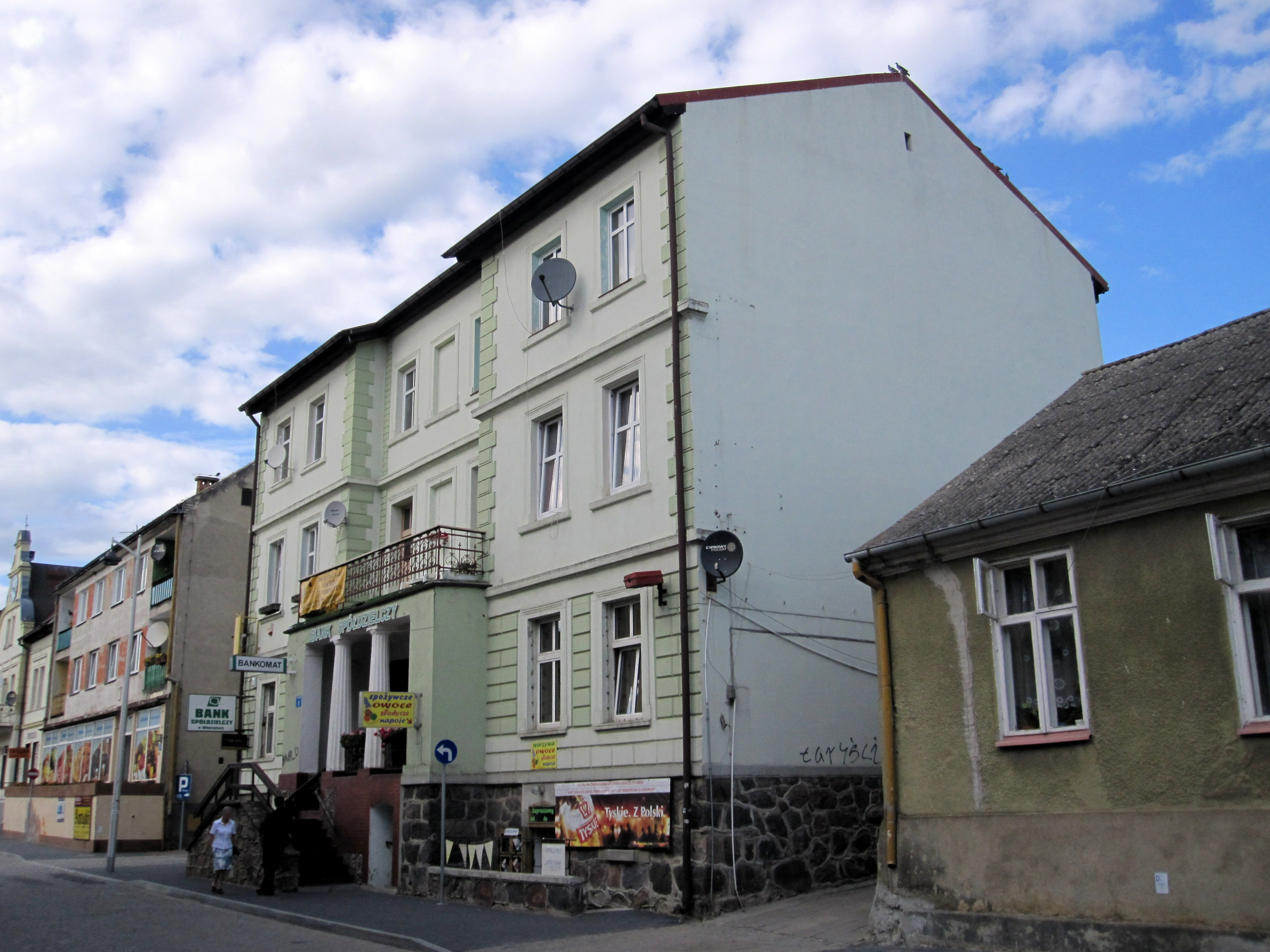 Building No. 1 on Kajki Street in Mikołajki